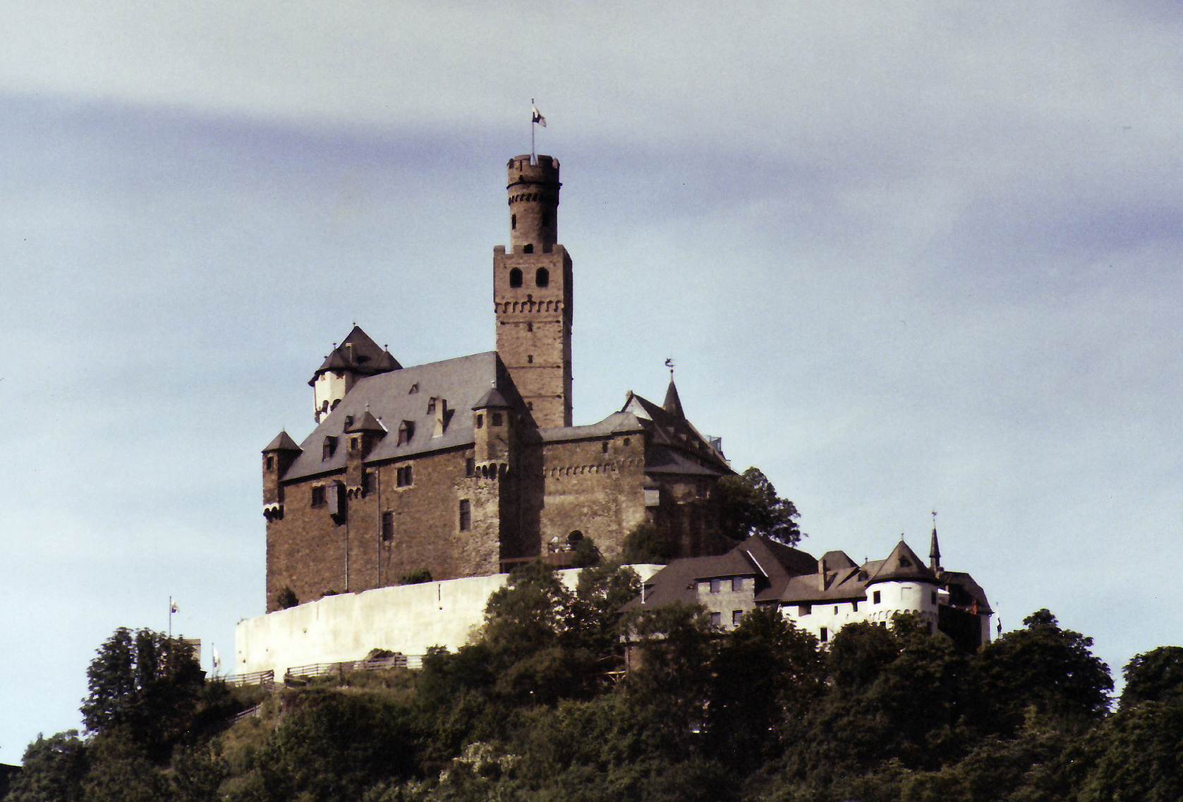 Marksburg, view from north-east